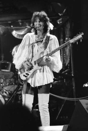 Chris Squire on bass.